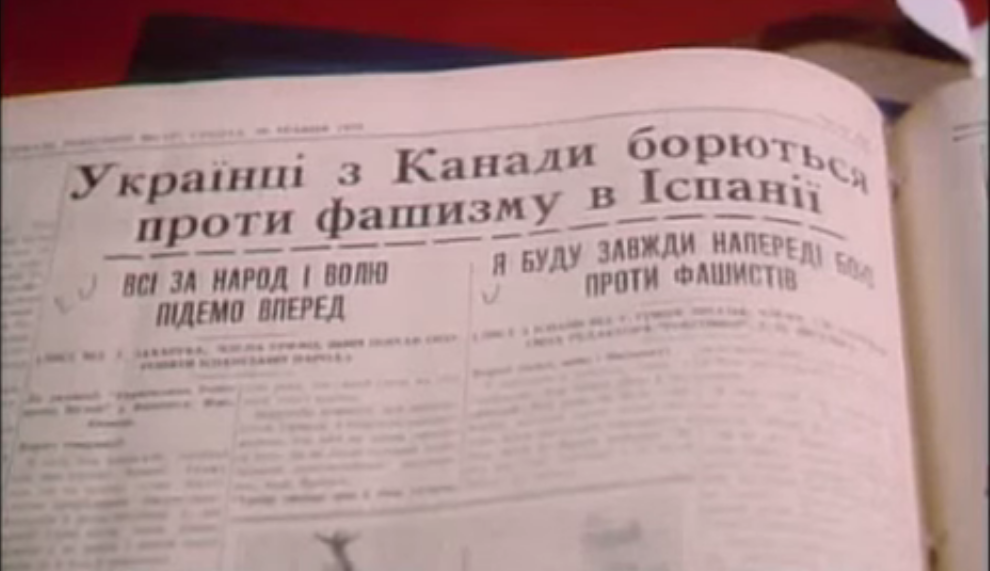 Ukrainian interbrigade company Taras Shevchenko